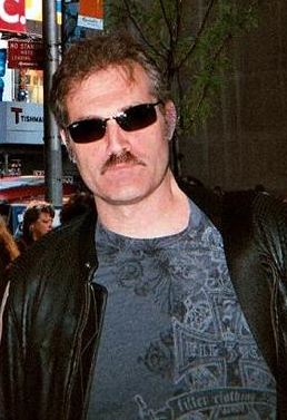 a picture of Marc Kudisch after 9 to 5